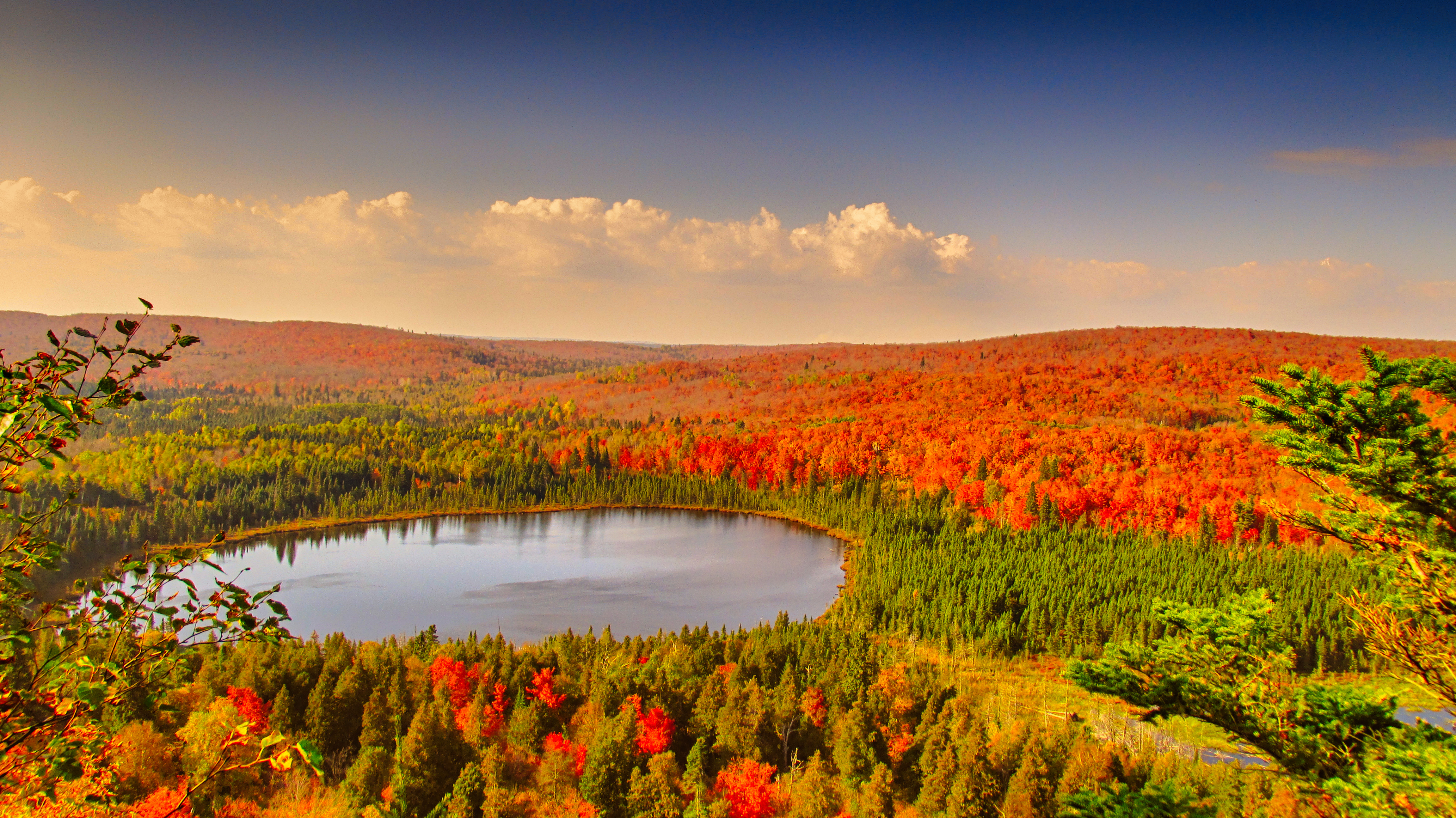 Oberg Lake shot during Peak Fall Colors from Oberg Mountain